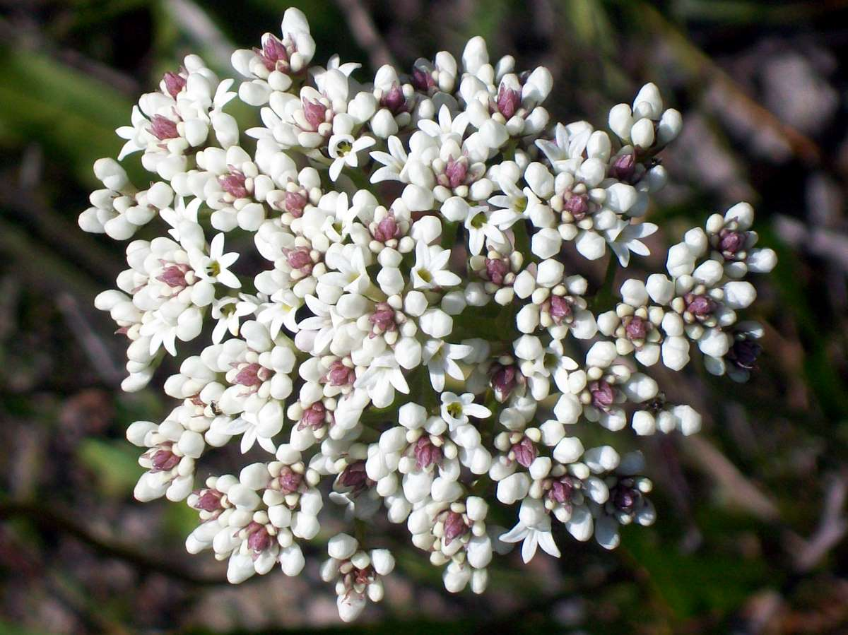 Bairne Track, Ku-ring-gai Chase National Park, Australia. Likely to be Conospermum longifolium